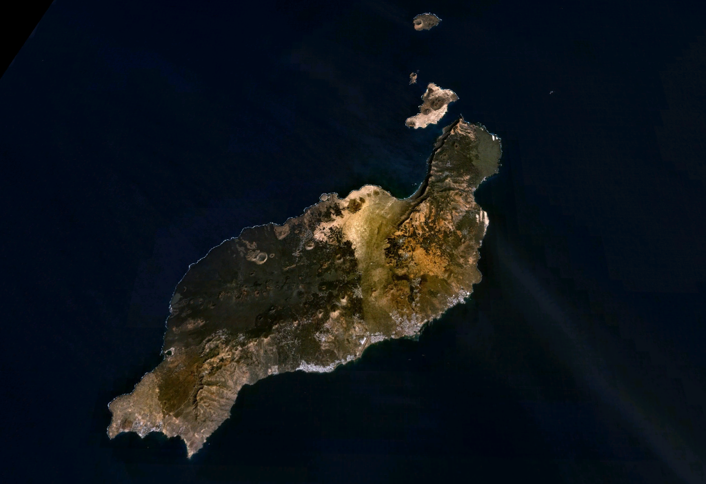 Lanzarote. Satellite view.